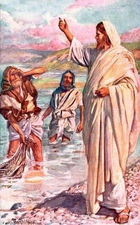 Calling of Andrew and Peter